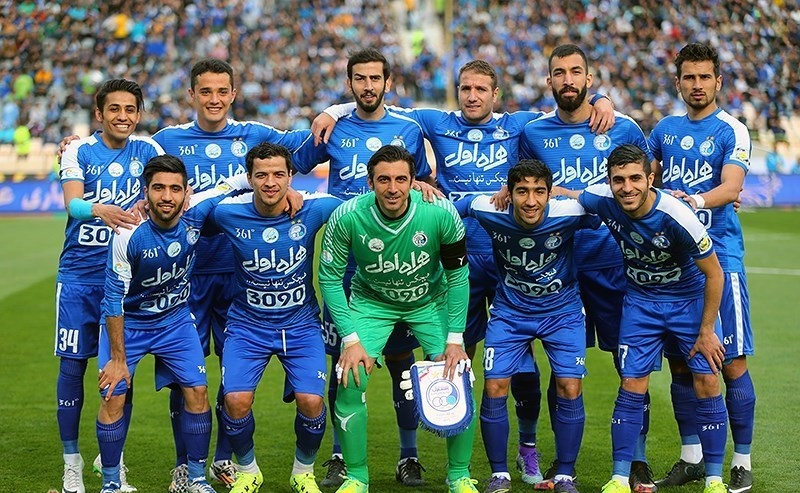 Esteghlal F.C. team image before Rah Ahan match